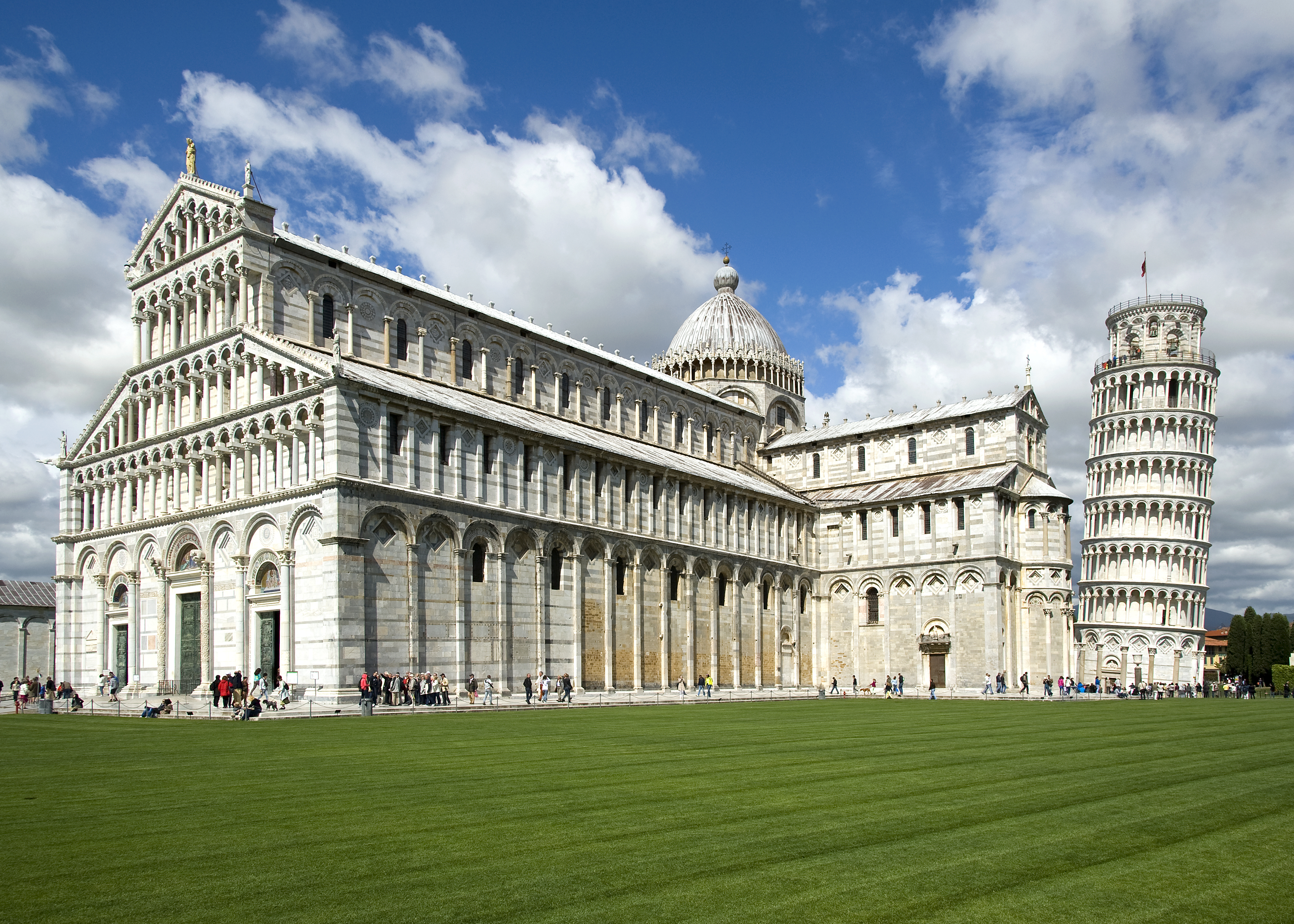 Duomo, the medieval cathedral of the Archdiocese of Pisa